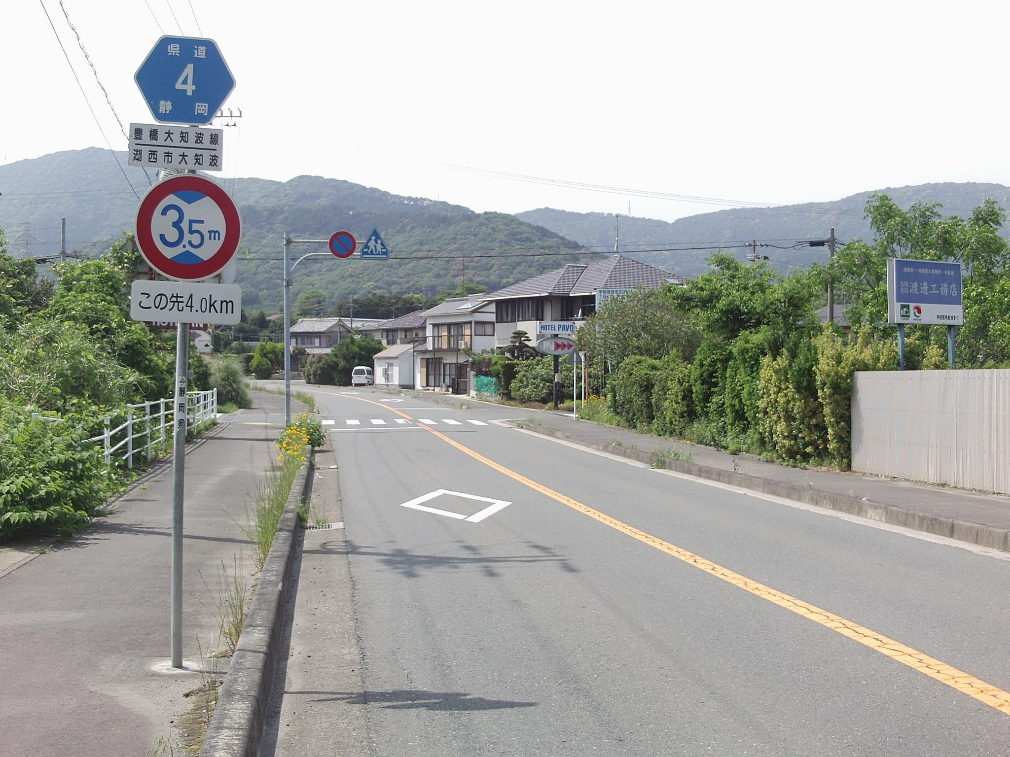 The Shizuoka Prefectural Road Route 4 in Ochiba, Kosai City